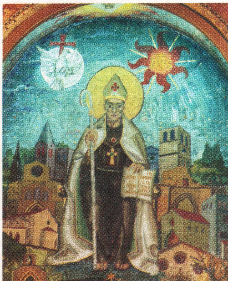 Mosaic with blessed Matteo di Agrigento, bishop and minor friar